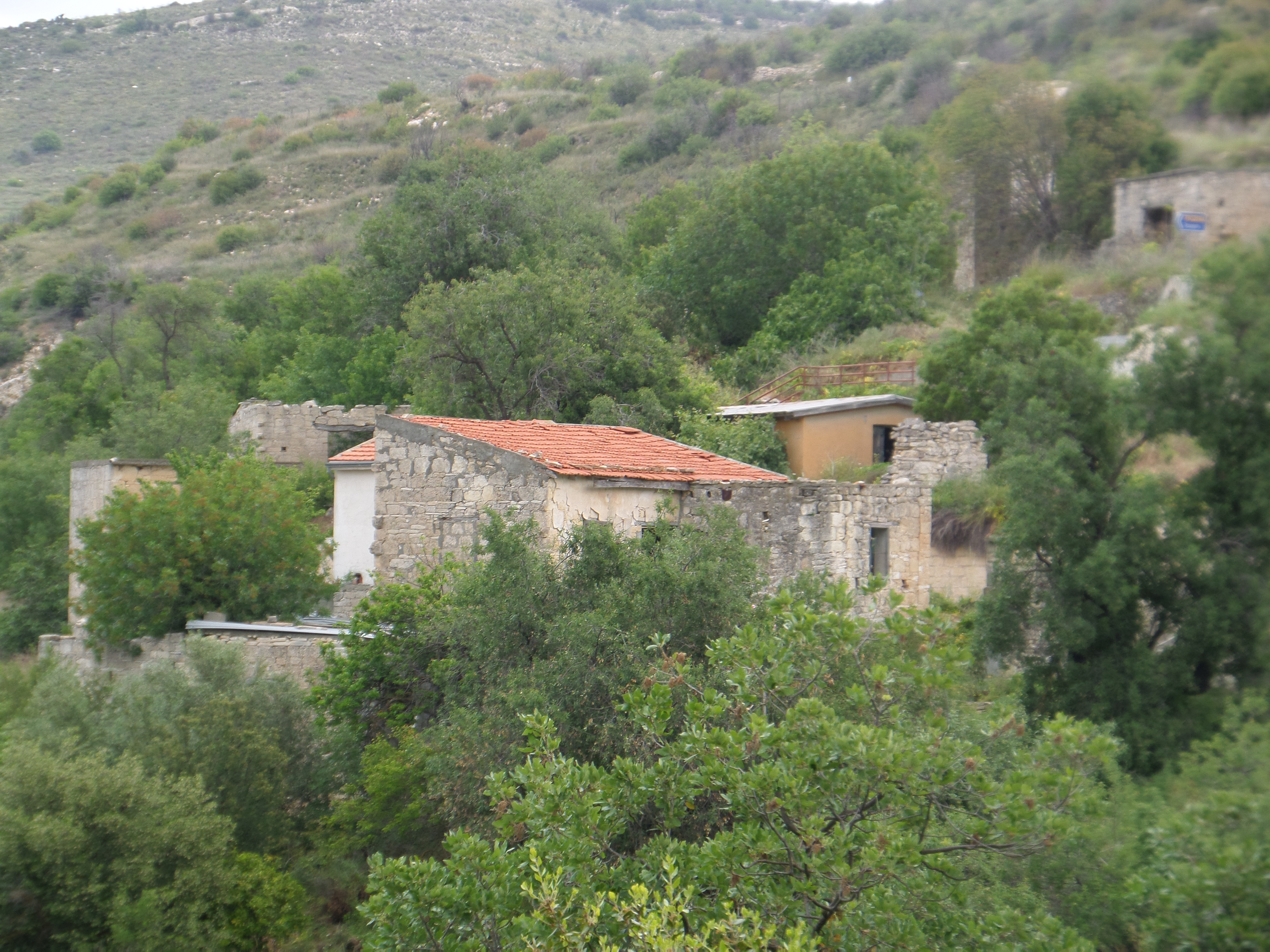 Ruins at Trozena.